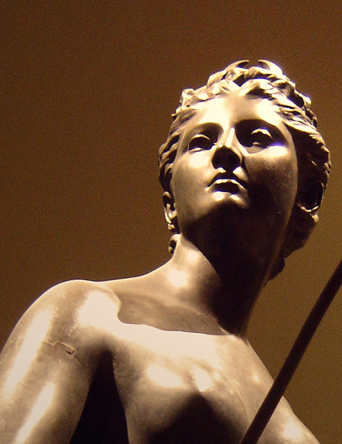 Diana, detail. Bronze, 1790. Background removed